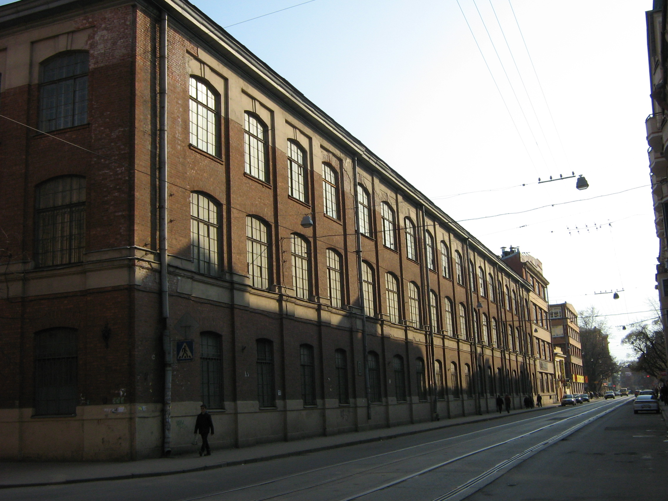 "Pechatnyi Dvor" (State Typography) in Saint Petersburg. View from Chkalovskii Prospekt and Pudozhskaya Street.